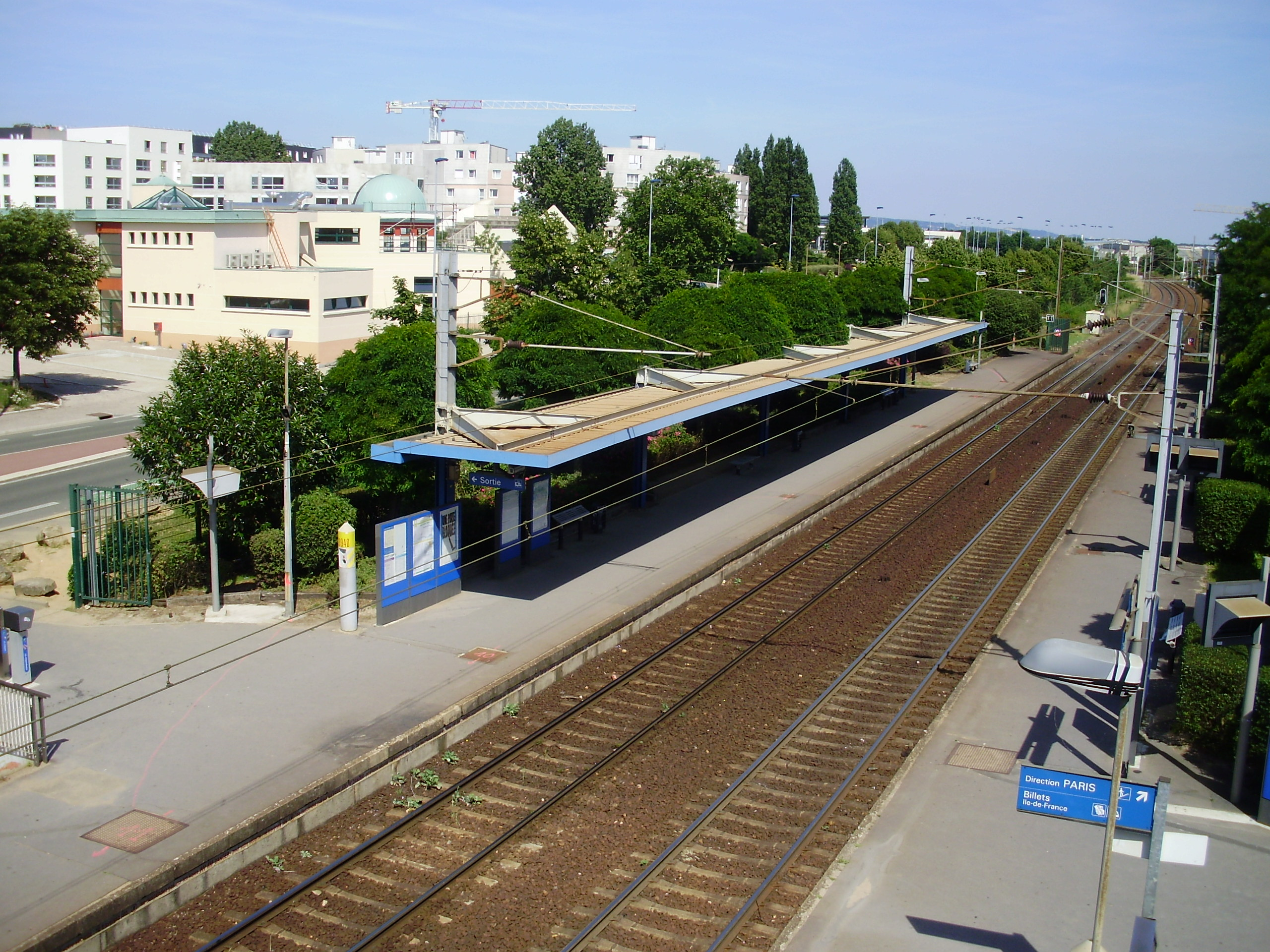 Chanteloup-les-Vignes station, Yvelines, France (view of platforms towards Paris, left platform to Paris, right platform to Mantes-la-Jolie)